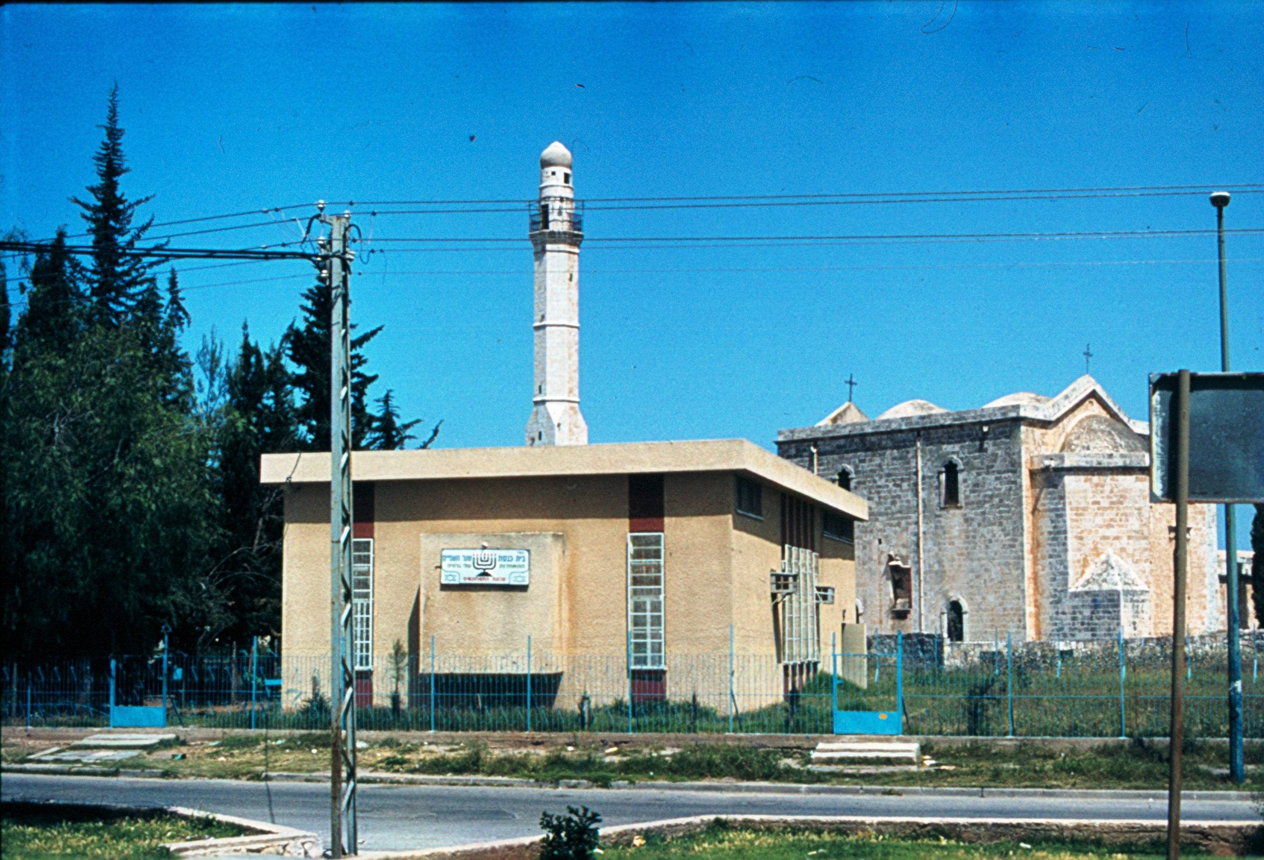 The_square_of_Synagogue_e_church_a_Mosque_(behind).